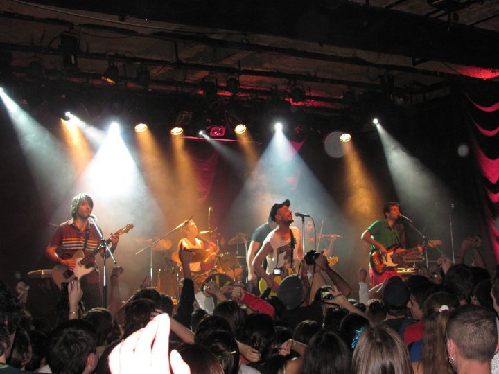 Árbol presentando No me etiquetes